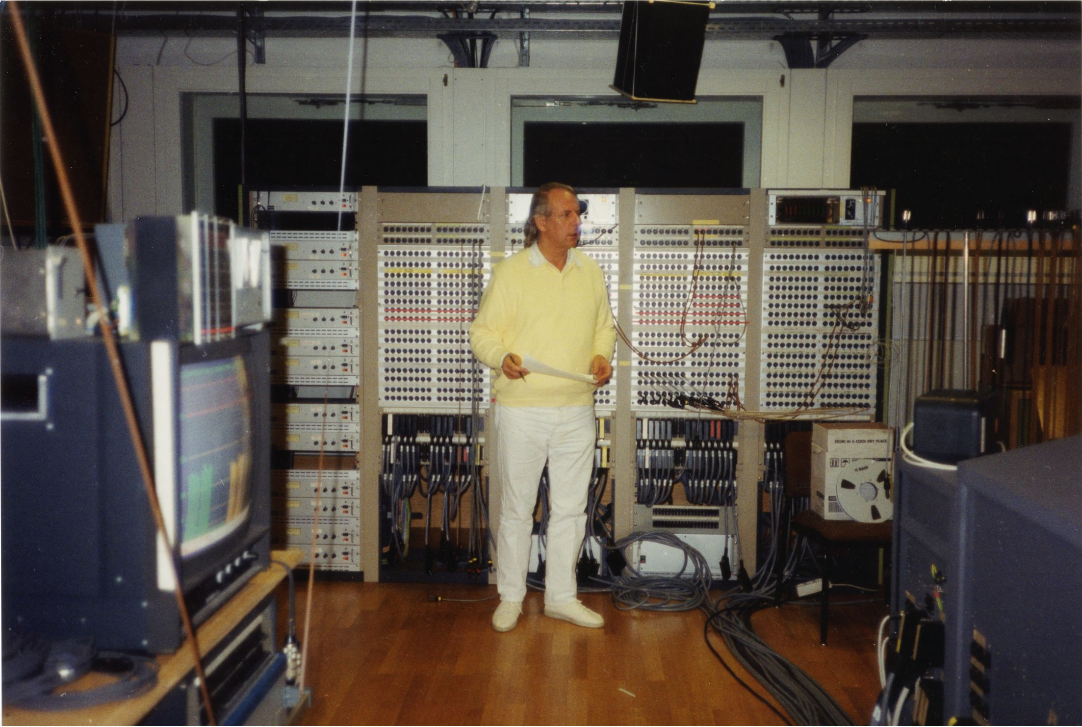 Karlheinz Stockhausen in the WDR Studio, 1991. (Photo: Kathinka Pasveer)